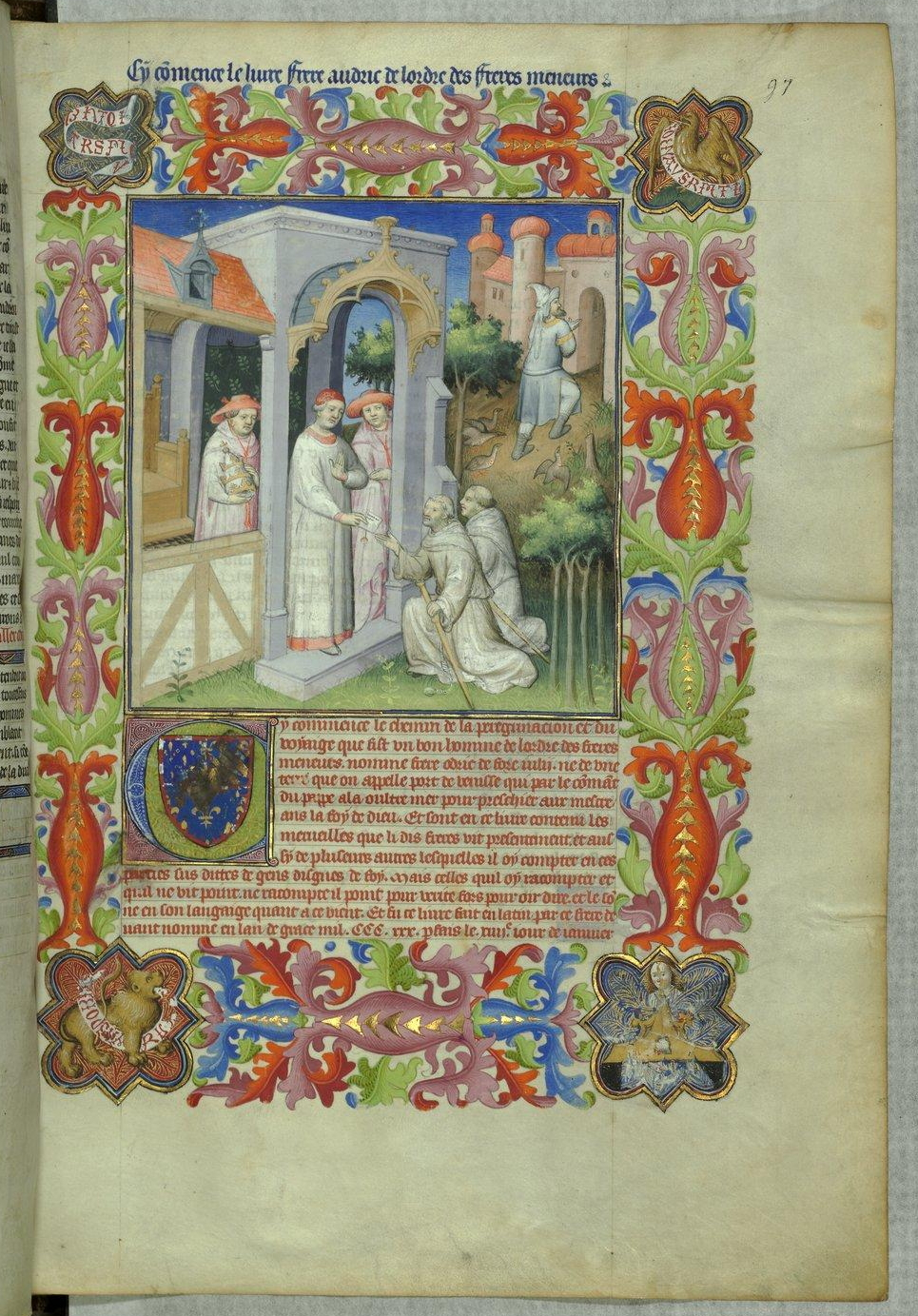 Odoric of Pordenone and Pope John XXII.